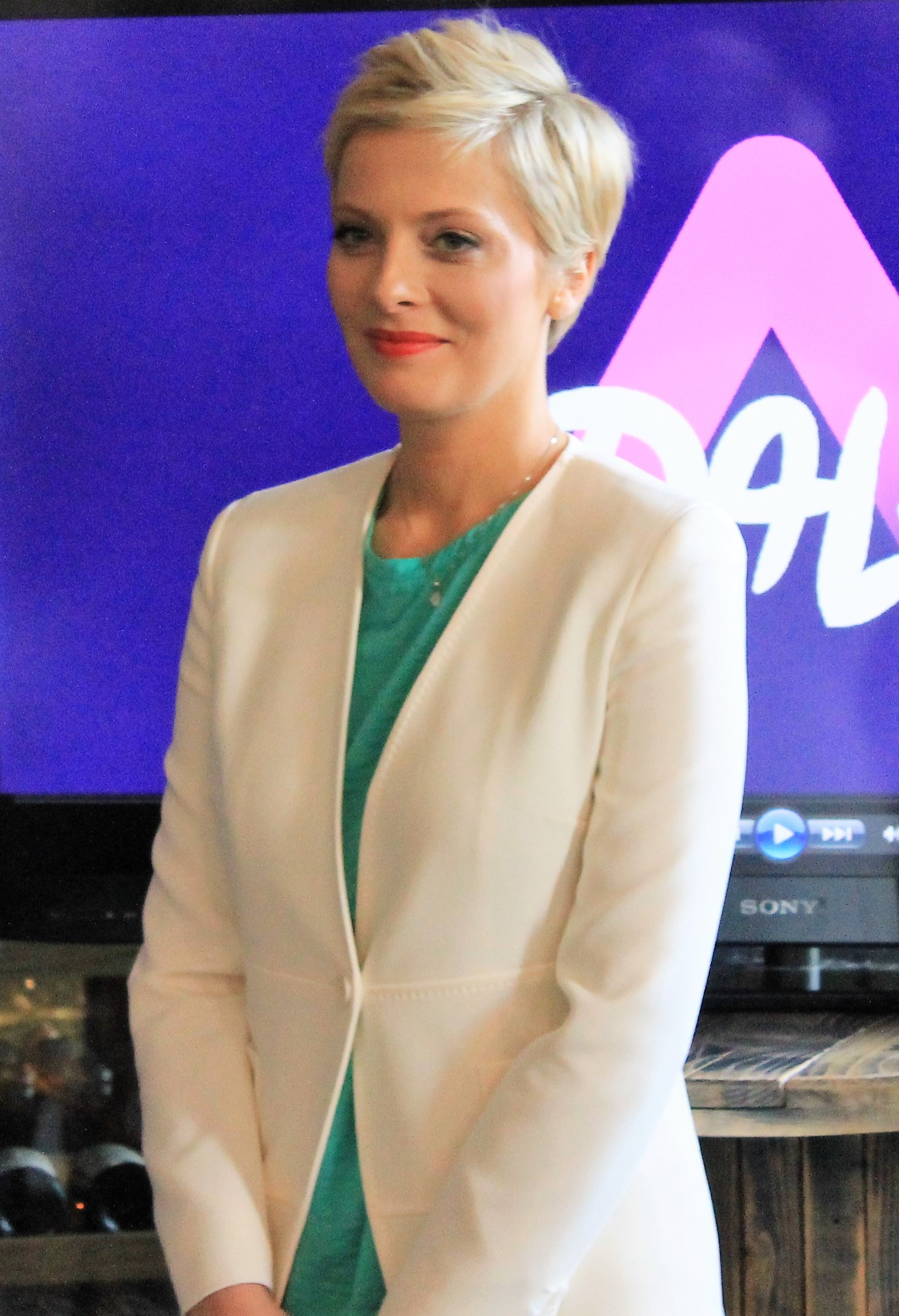 Csilla Tatár, the Hungarian spokesperson in the Eurovision Song Contest 2017 in the Március 15. tér in Budapest on the 24th of April, 2017